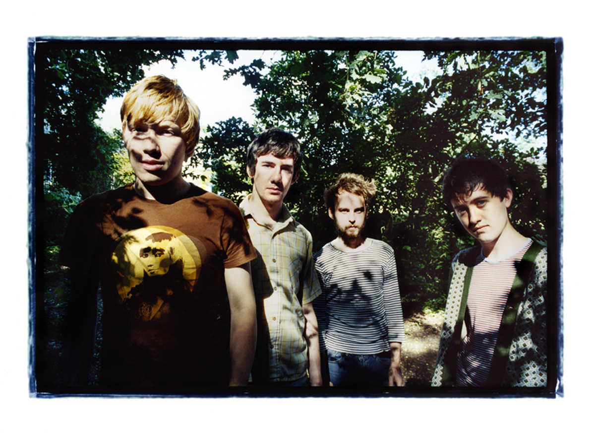 The Immediate Band Photo